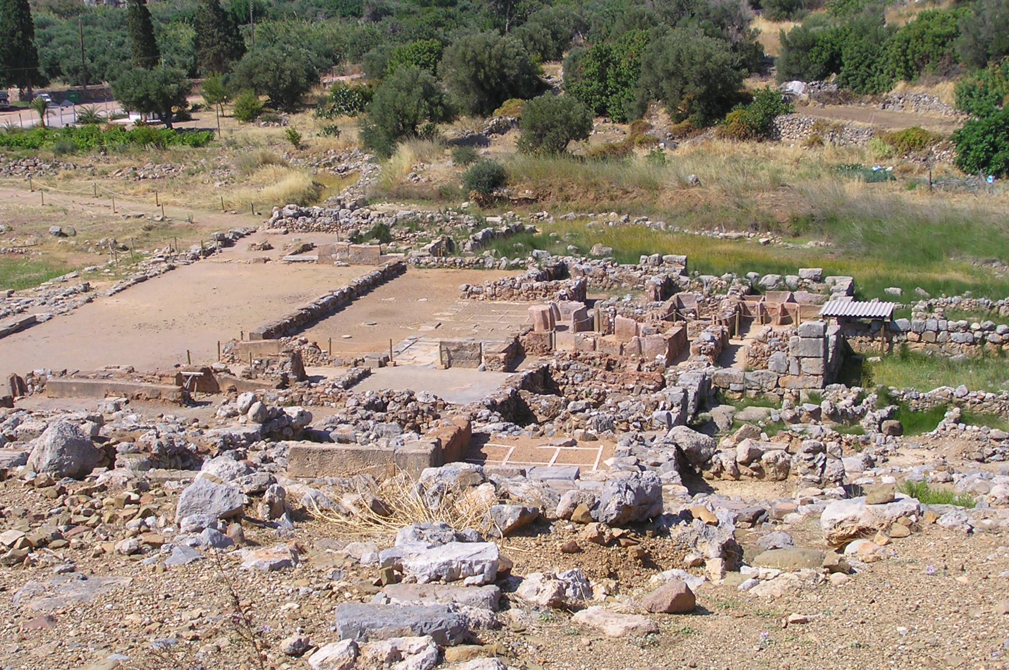 Palace of Zakros ruins, Eastern Crete